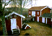 Image of Arbeidersmåbruket Furuset, Opakermoen in Norway